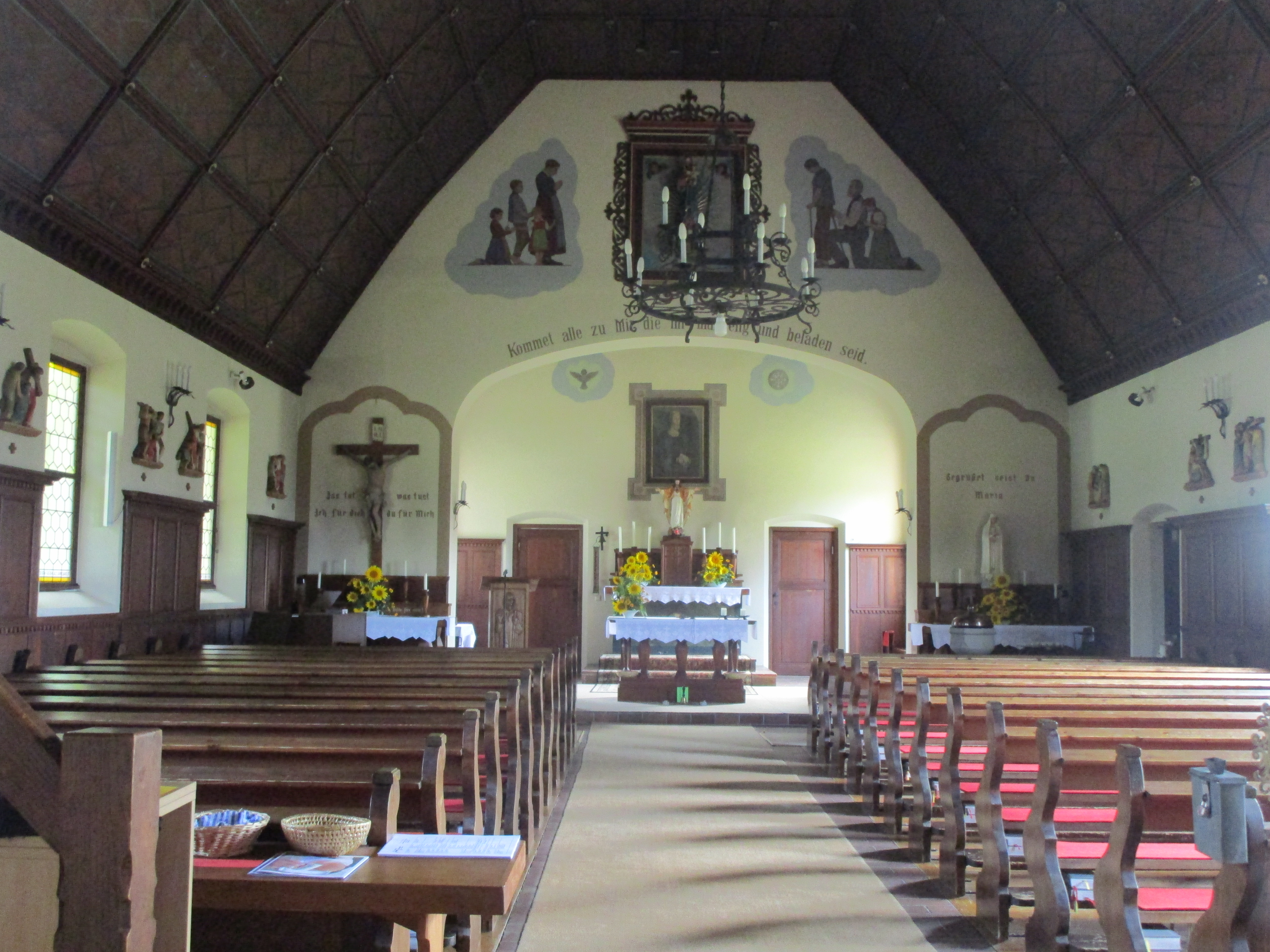 The Roman Catholic filial church Silberwald is situated in the local district Silberwald of the municipality Strasshof an der Nordbahn in the district of Gänserndorf in Lower Austria. The picture shows the interior of the church.